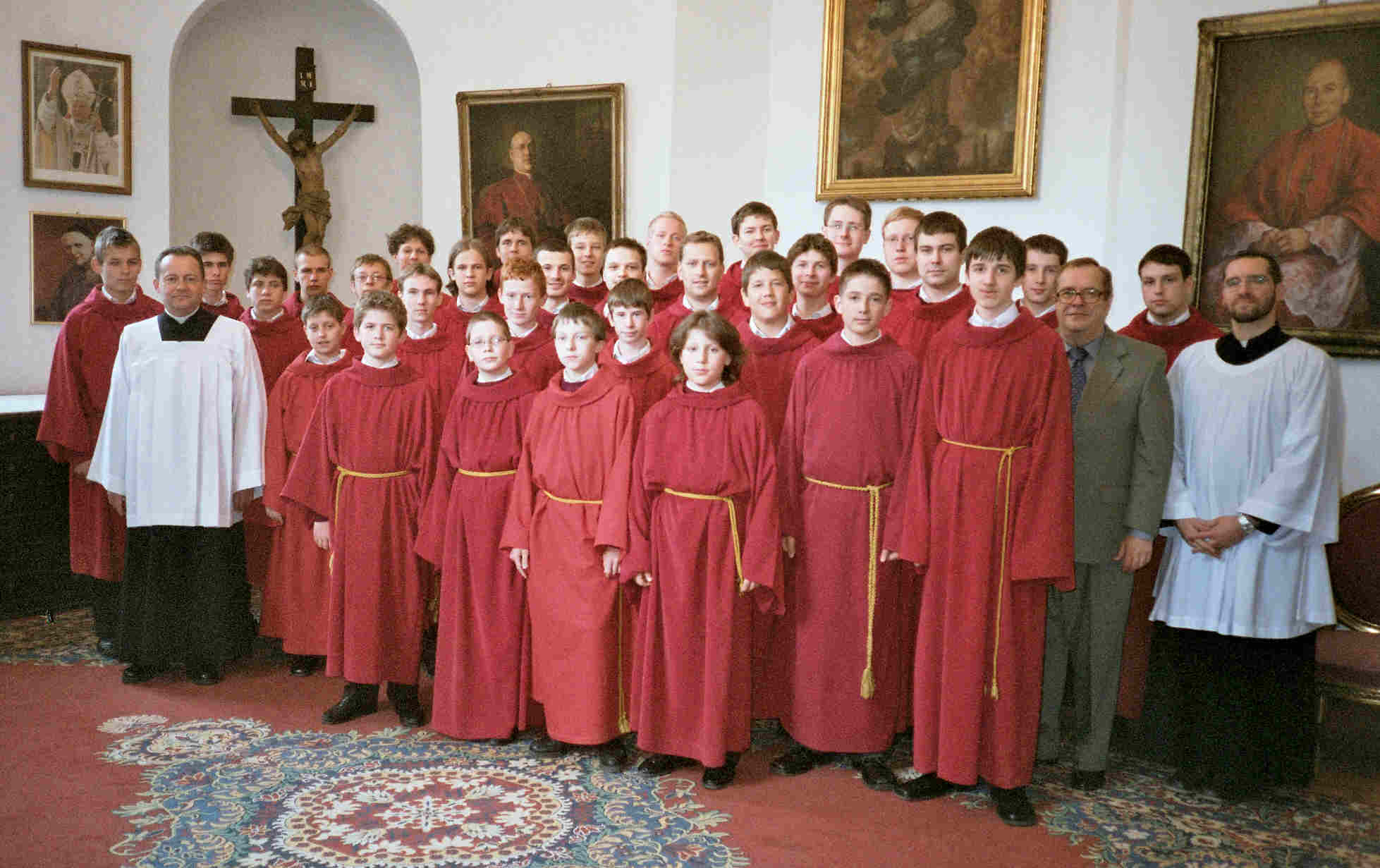 Cantores Minores - Warsaw Archdiocesan Cathedral Choir